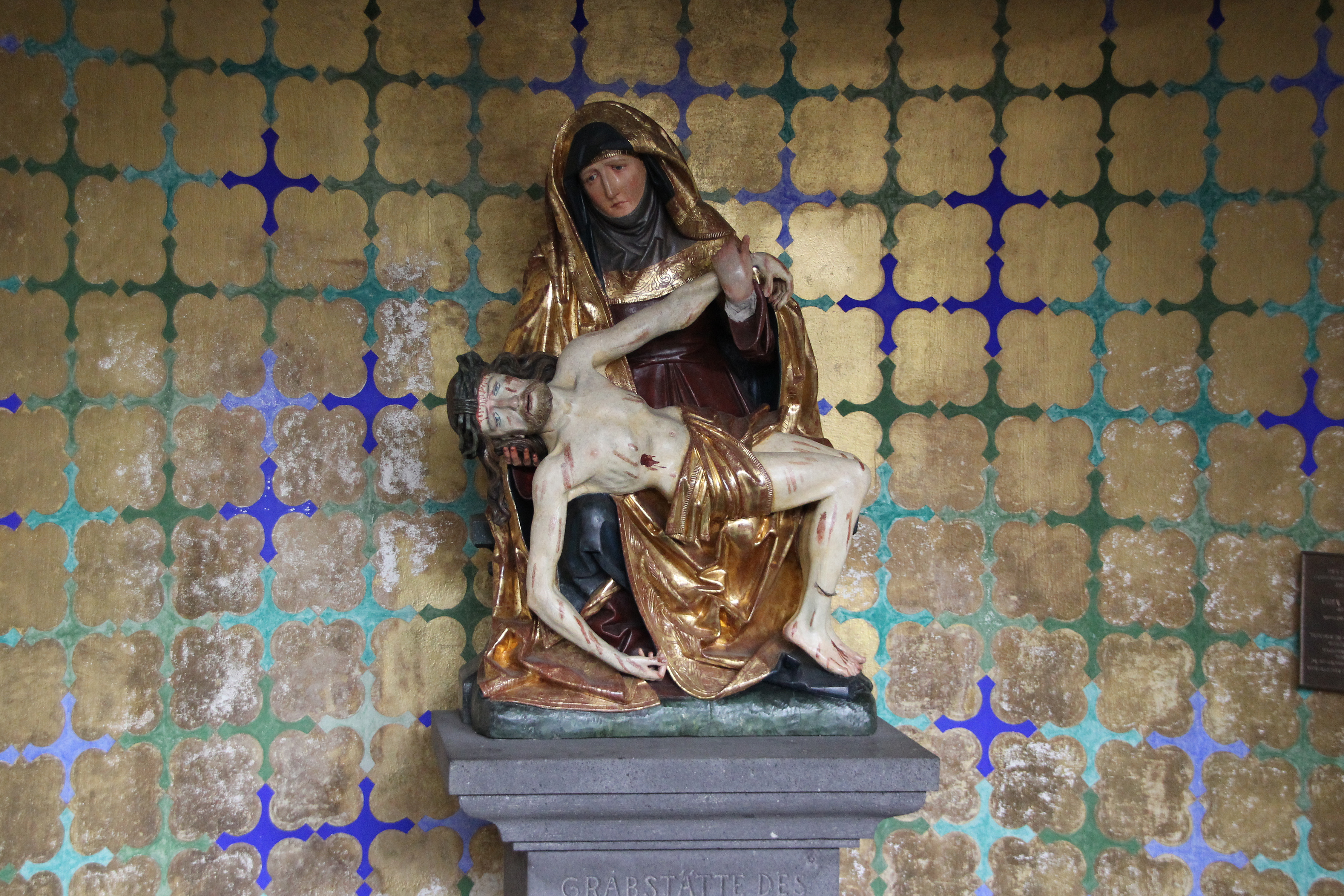 St. Elisabeth church in Koblenz